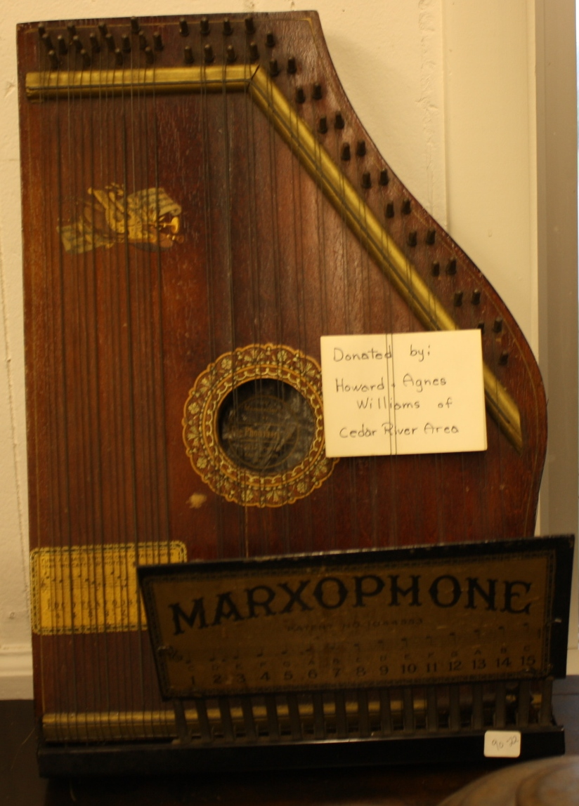 A Marxophone on display in the Dickenson County Historical Museum in Escanaba, Michigan.